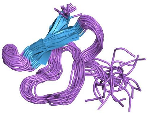 Cartoon representation of the molecular structure of protein registered with 1lmr code.